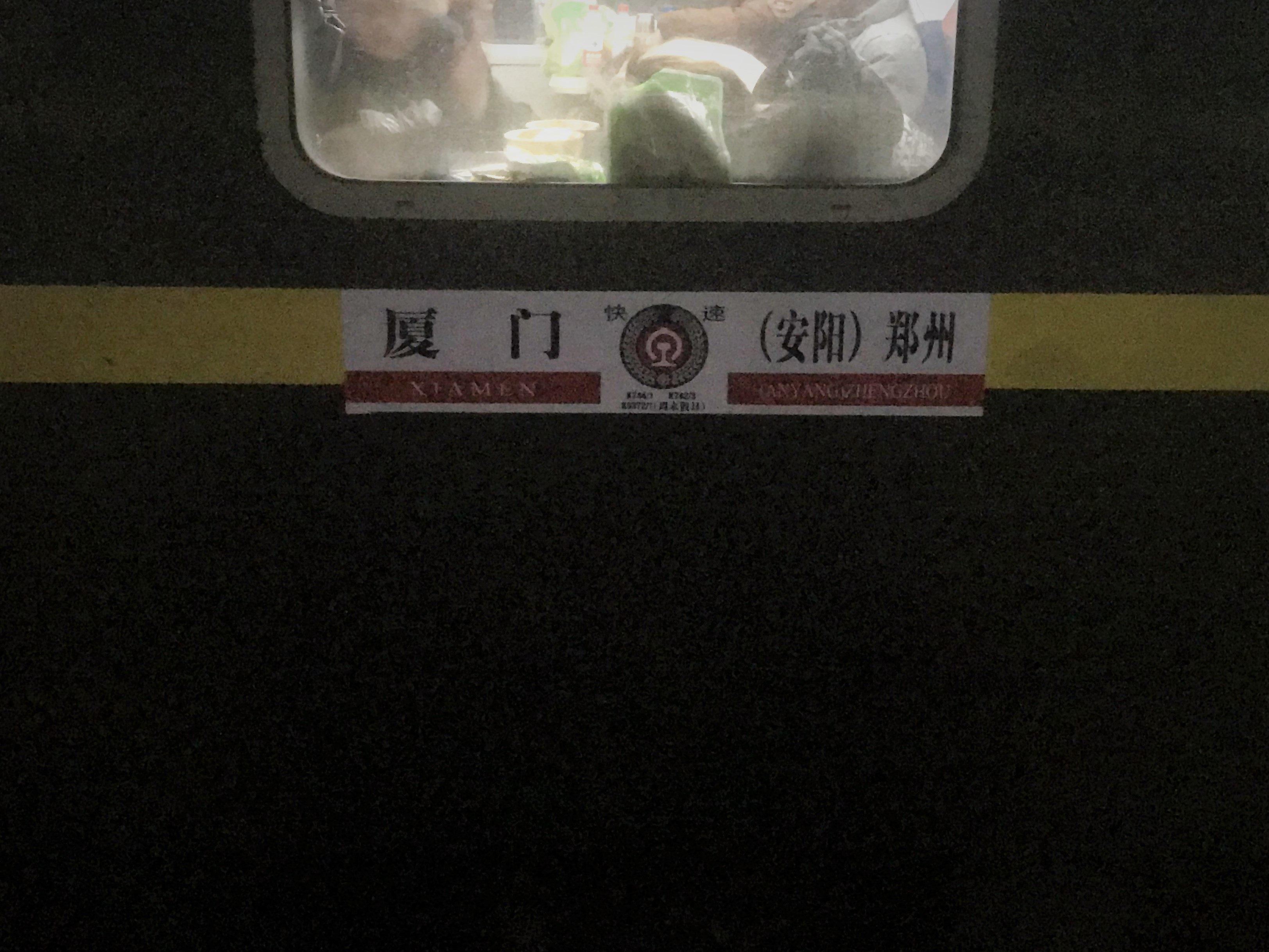 Taken at Ganzhou Station